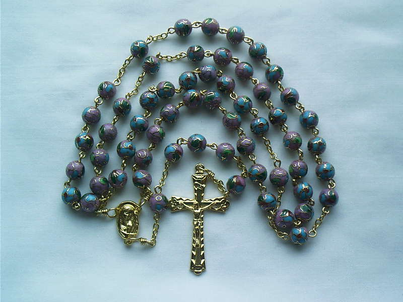 I,, J Bogdan, hereby release this picture taken by me into the public domain. However, I do not own the copyrights of the design of the crucifix, center (medal in middle), or the beads. The design of these is most likely not copyrighted. This specific design of the rosary itself is mine and it is also released into the public domain.